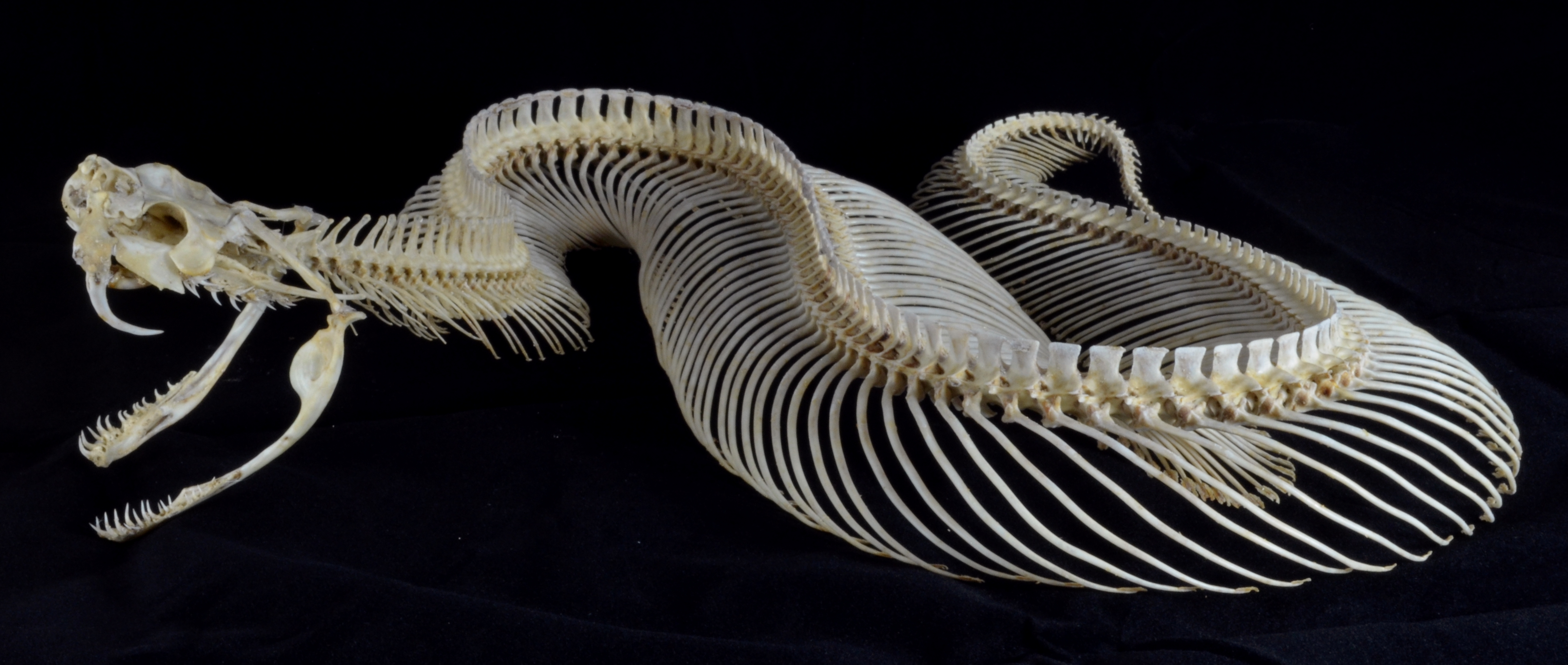 Complete Skeleton of a Gaboon Viper (Bitis gabonica). Snake Skeleton. Snake Anatomy. Skull